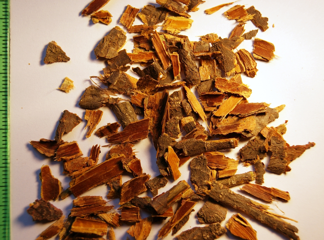 Rhamnus frangula